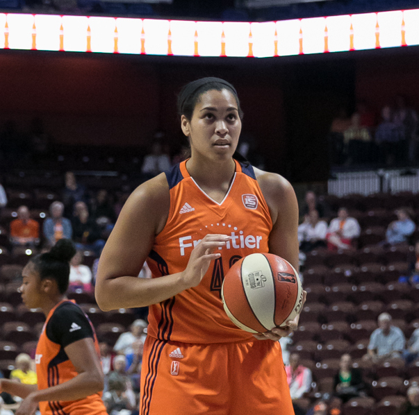 Brionna Jones playing for the Connecticut Sun in 2017